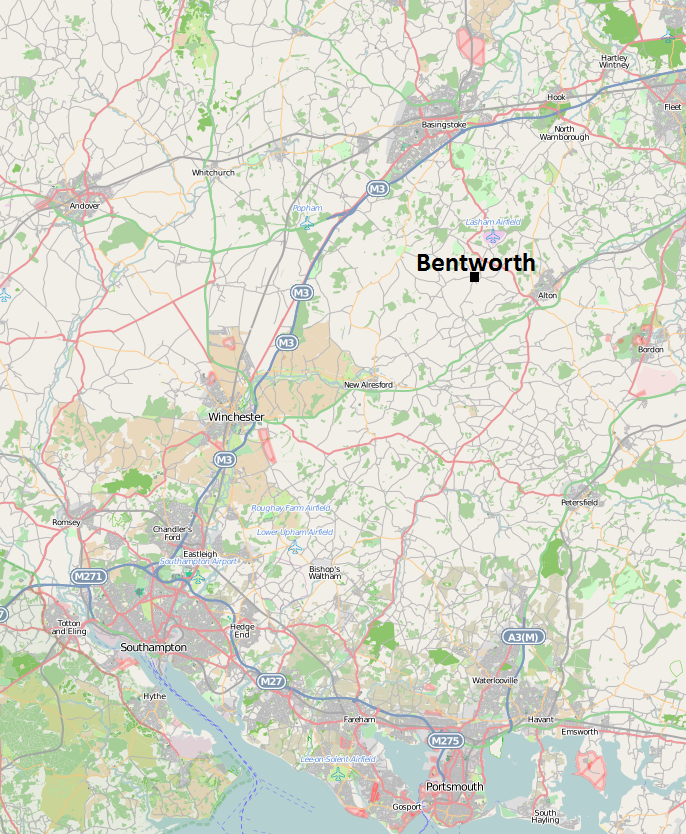 Map showing location of Bentworth village in southern England